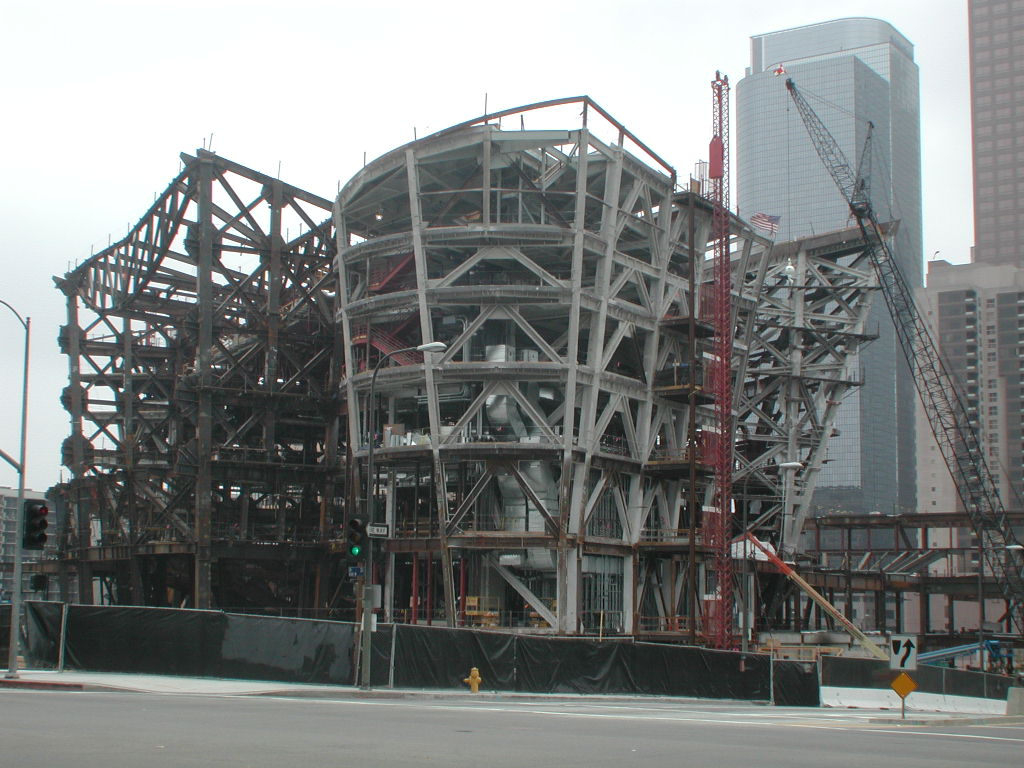 Photo of the Walt Disney Concert Hall designed by Frank Gehry under construction in May 2001